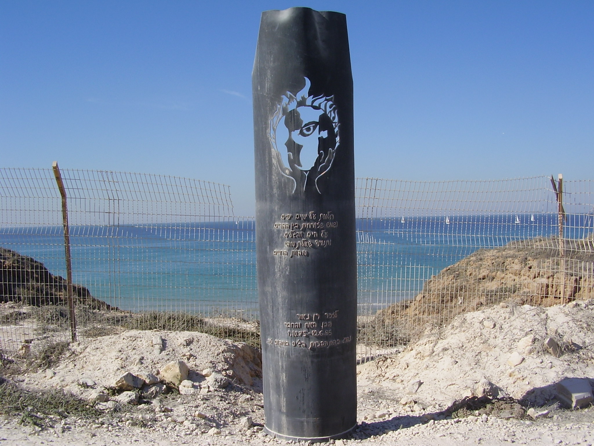 ran naor memorial in herzliya